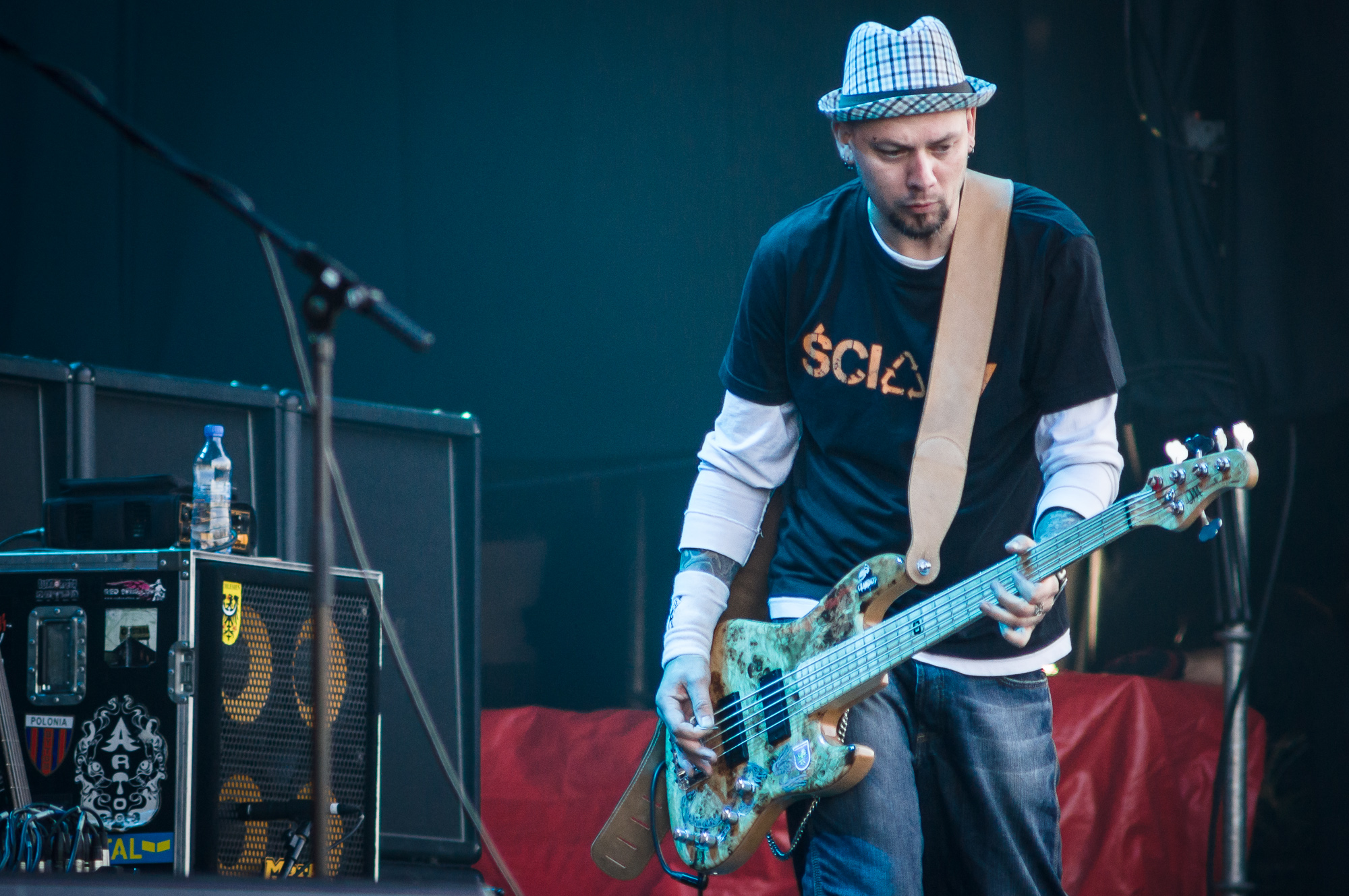 Adrian Kulik - bassist of Lipali band. Ursynalia 2012, Warsaw, Poland.